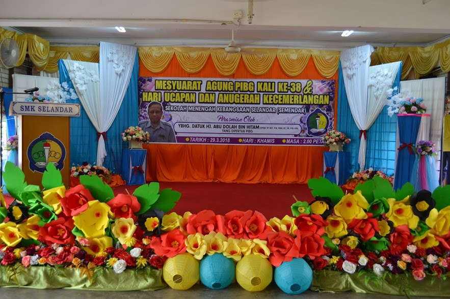 GAMBAR 5